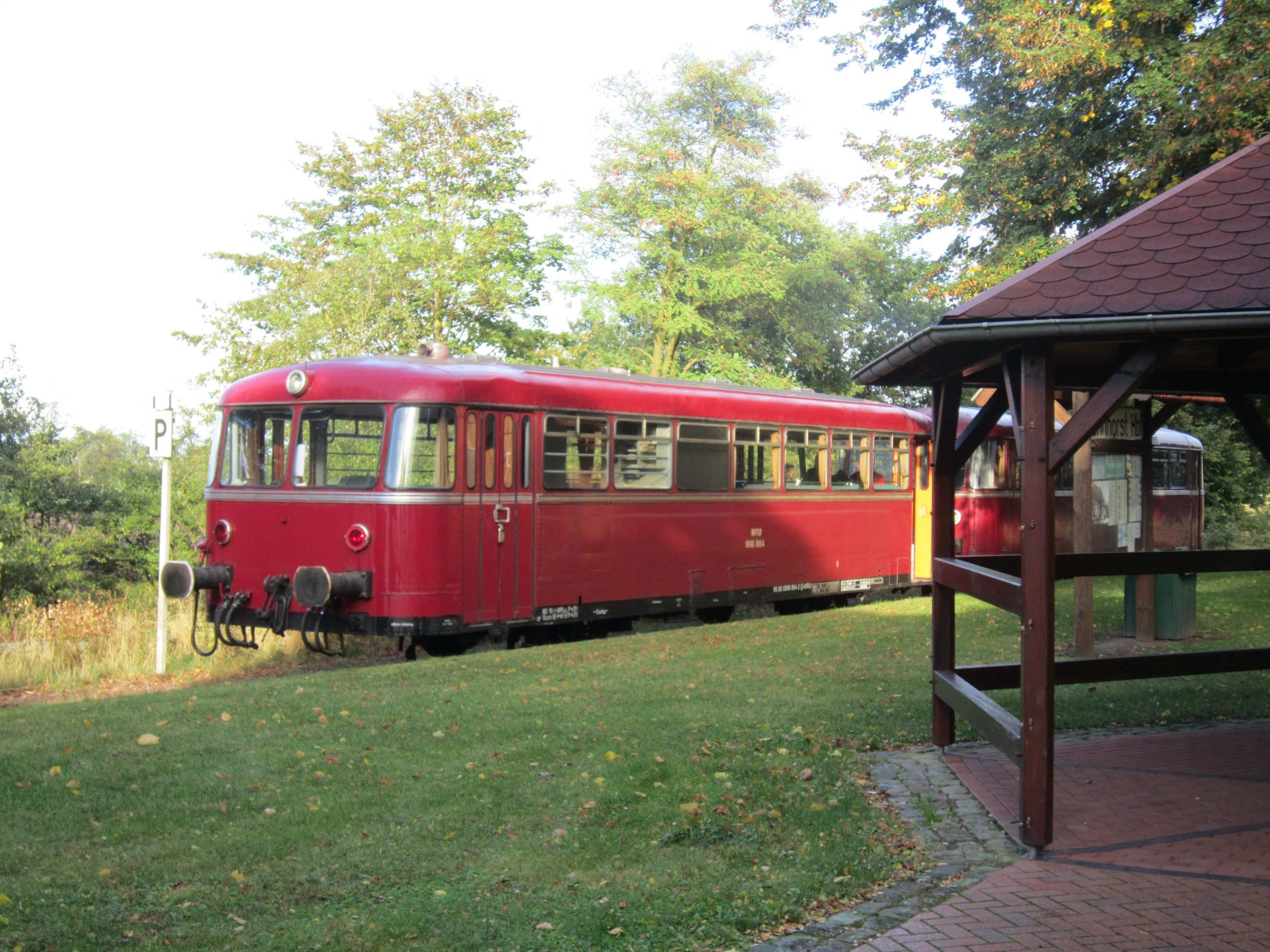 "Schienenbus" in Bohnhorst railway station